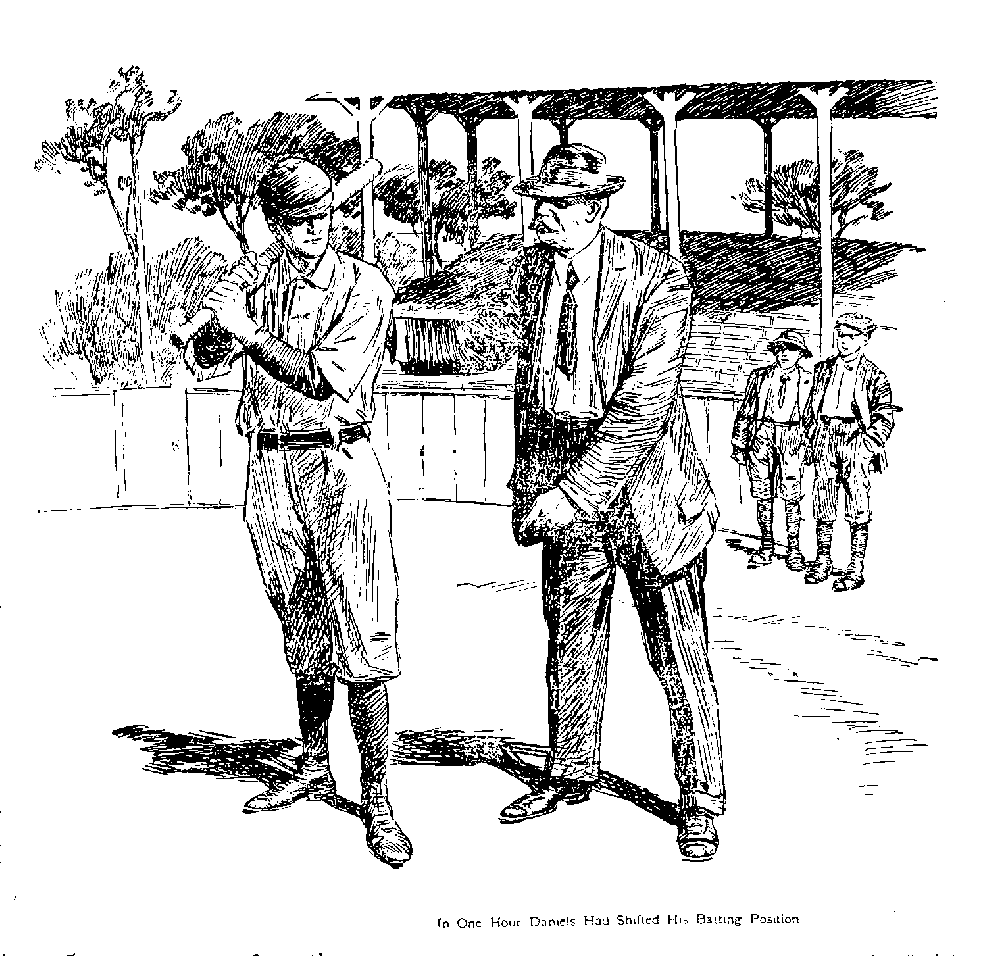 Scout Arthur Irwin helping Bert Daniels with his stance. From 1911. Converted to black and white indexed PNG and cropped by the uploader